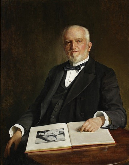 Portrait of Cyprian Lachnicki (1824-1906), Polish painter and art collector